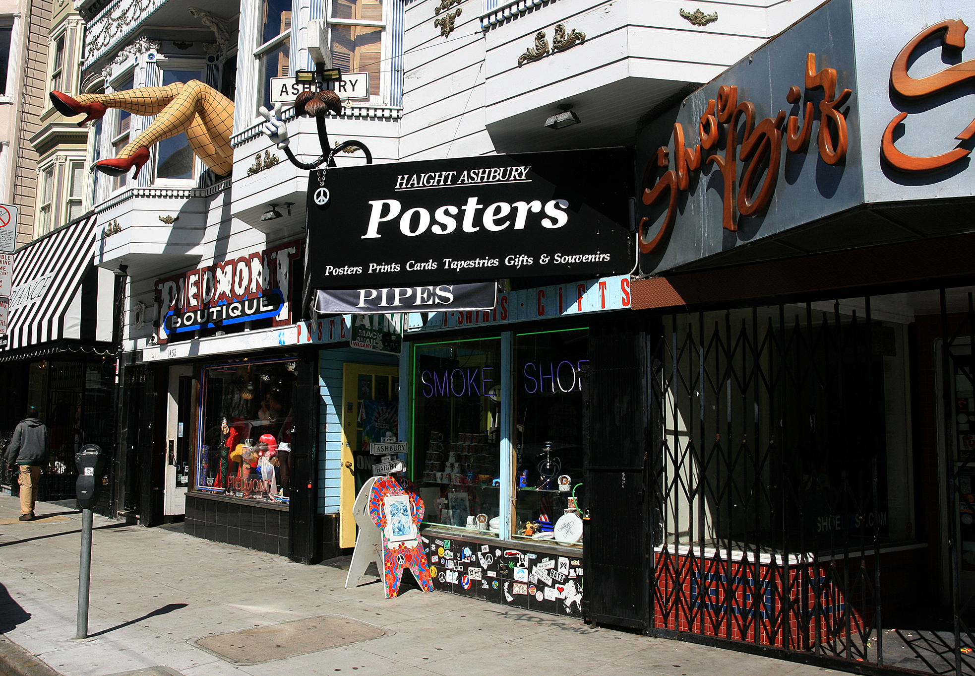 Haight Street, San Francisco, California, USA